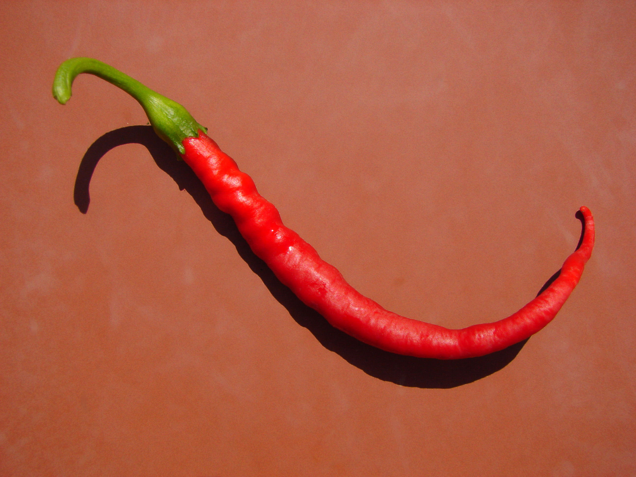 Red Pepper, Capsicum annuum